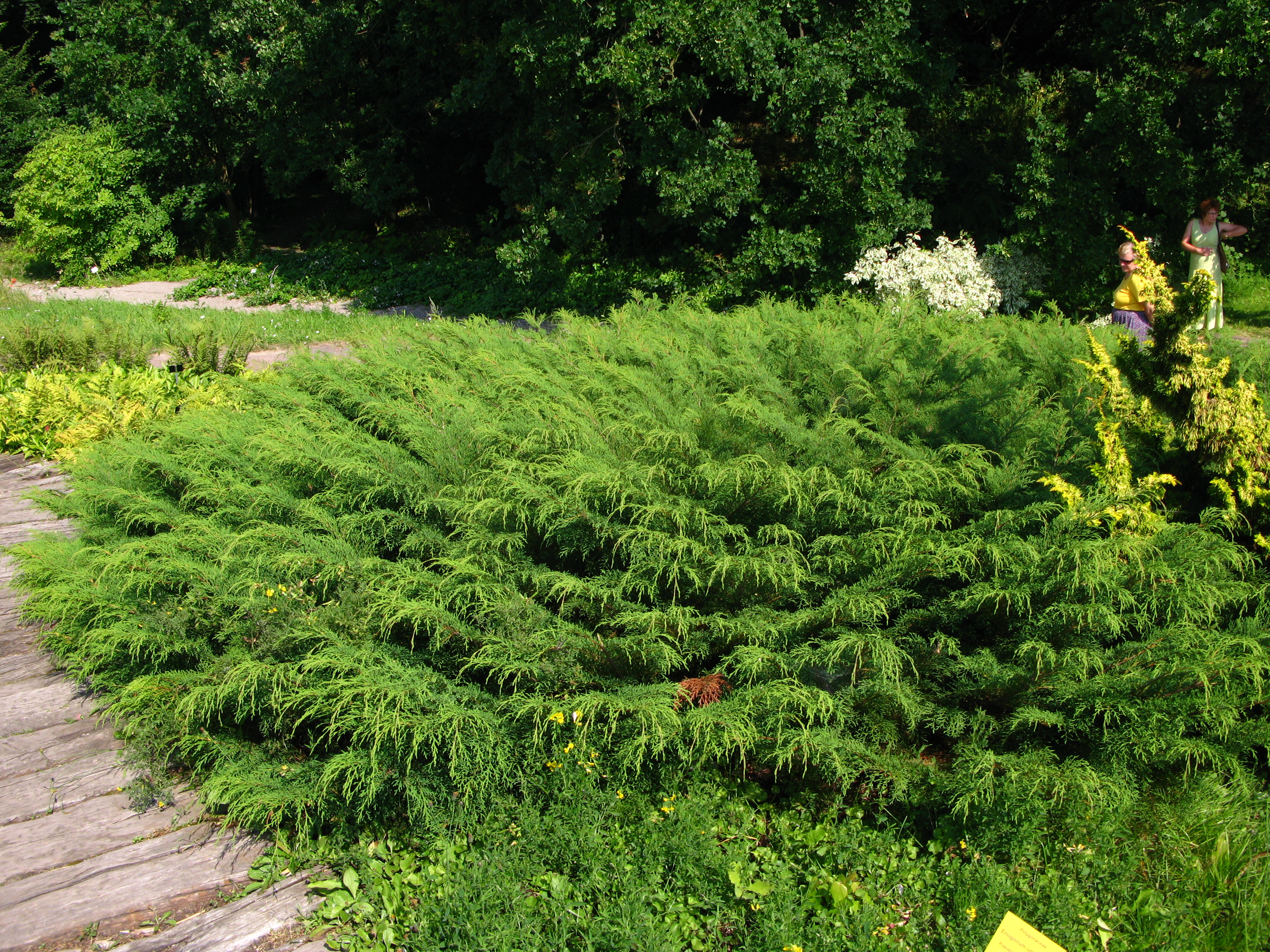 Microbiota decussata in PAN Botanical Garden in Warsaw